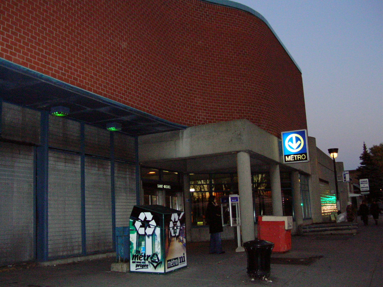 Entrance of Montreal Metro Saint-Michel Station 中文（香港）: 蒙特利爾地鐵聖米歇爾站的入口